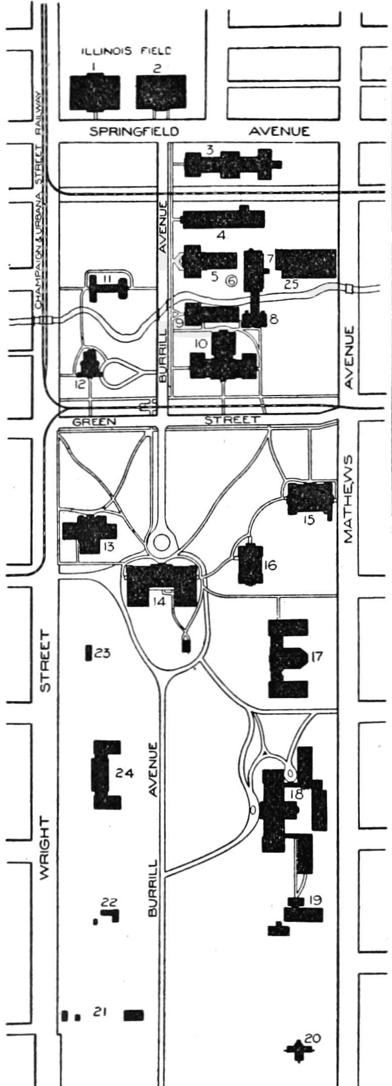 Street map of the University of Illinois campus